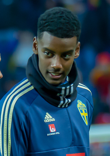 UEFA EURO qualifiers Sweden vs Romaina 20190323